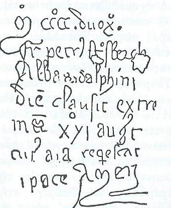 inscription of Petrus Strosberch, latin abbot of Dafni in Athens